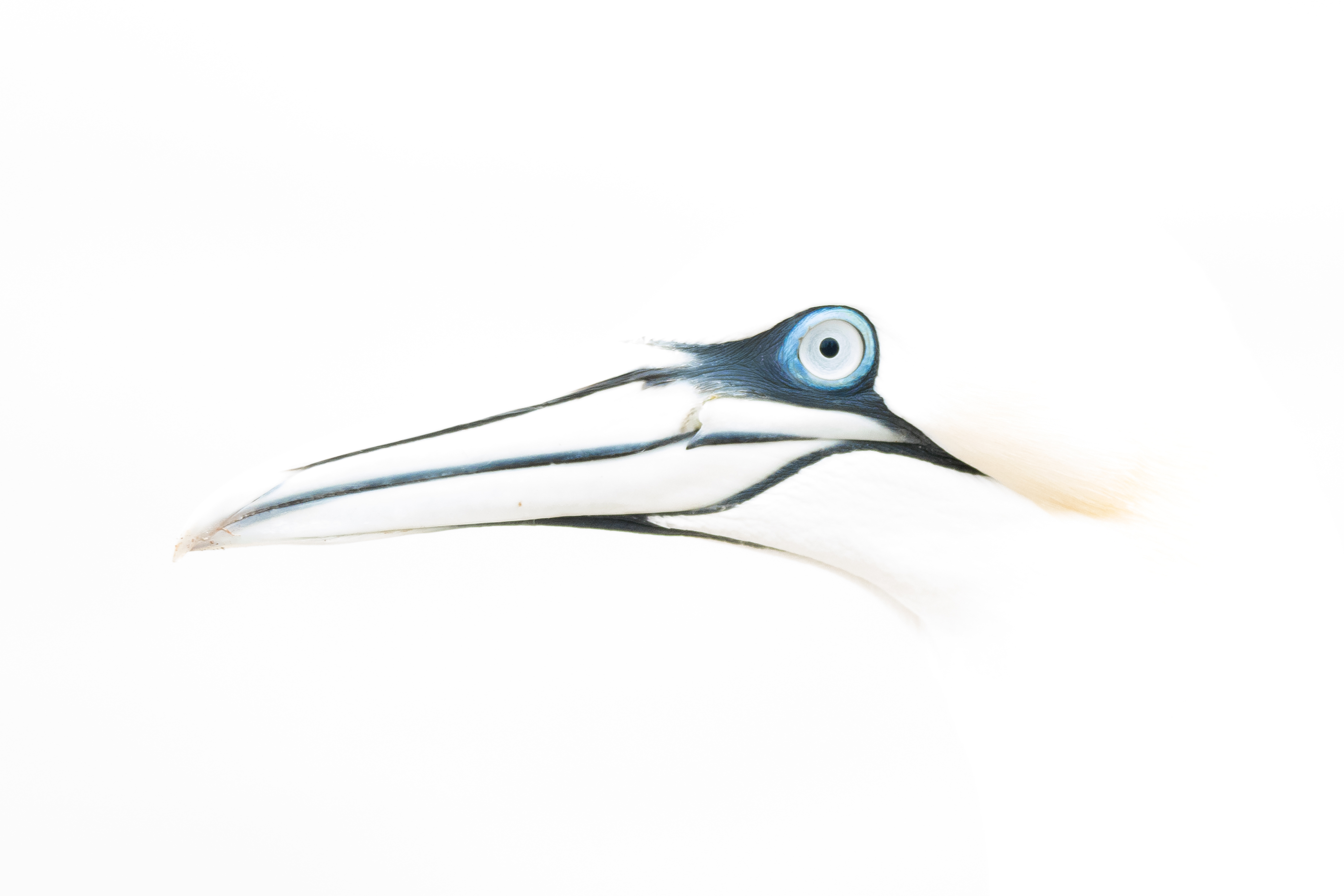 High-key lighting of a Northern Gannet